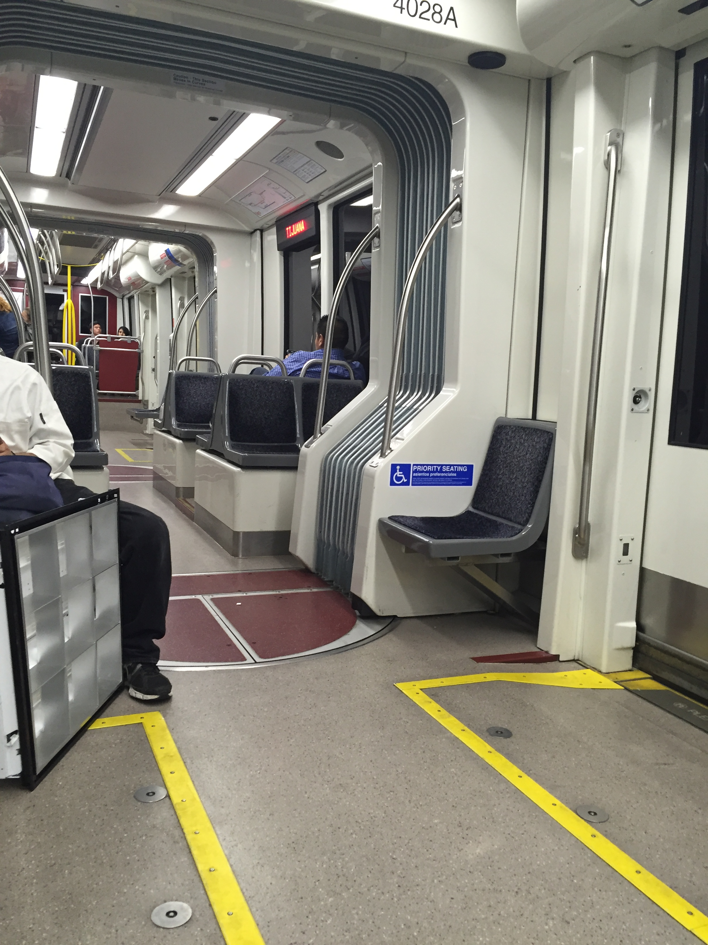 Inside of San Diego Trolley.